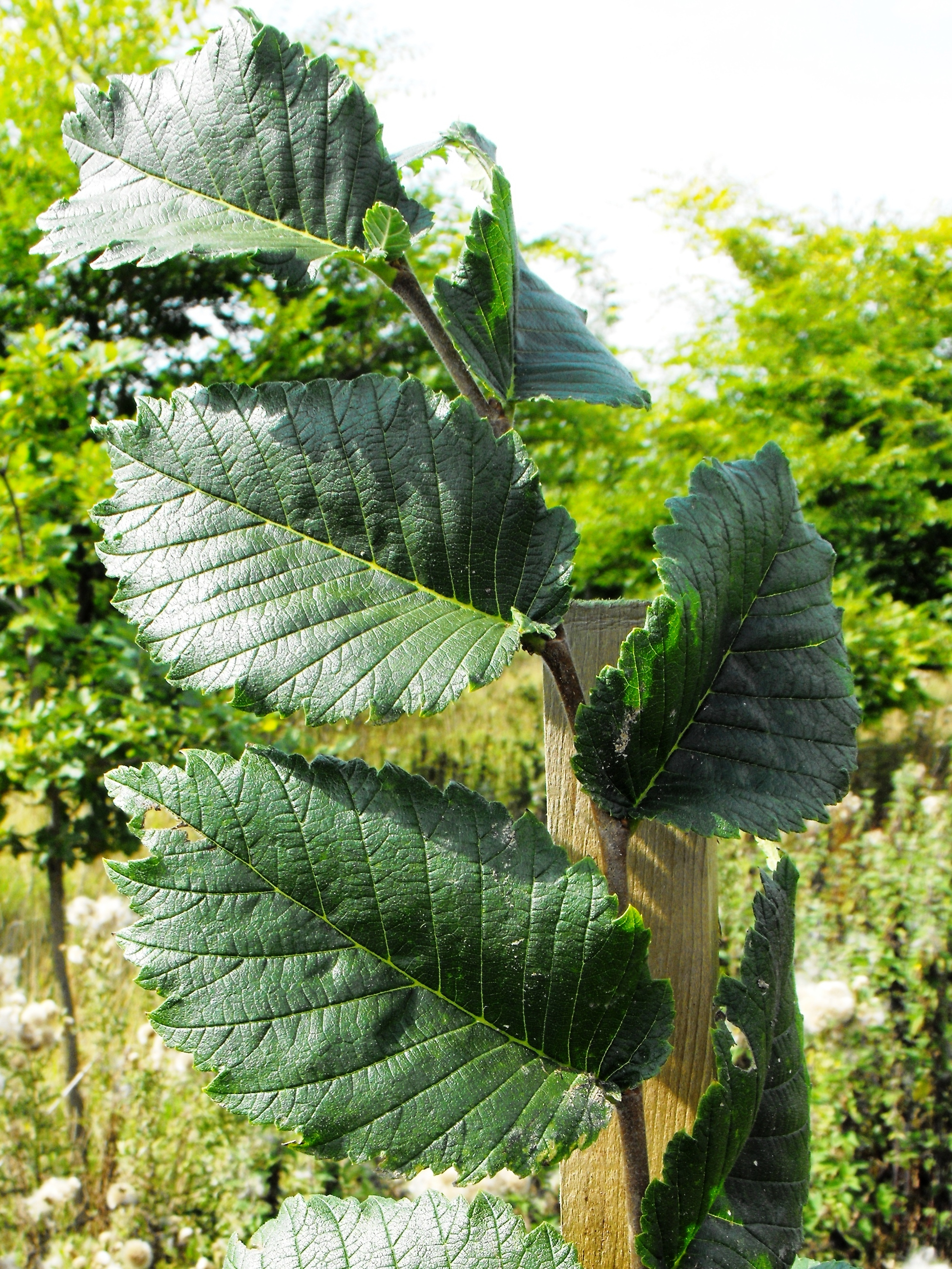 Photo of leaves of U. americana 'Lewis & Clark'